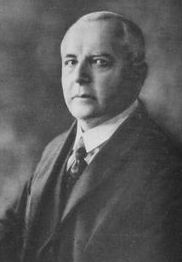 Julian Nowak (1865-1946)